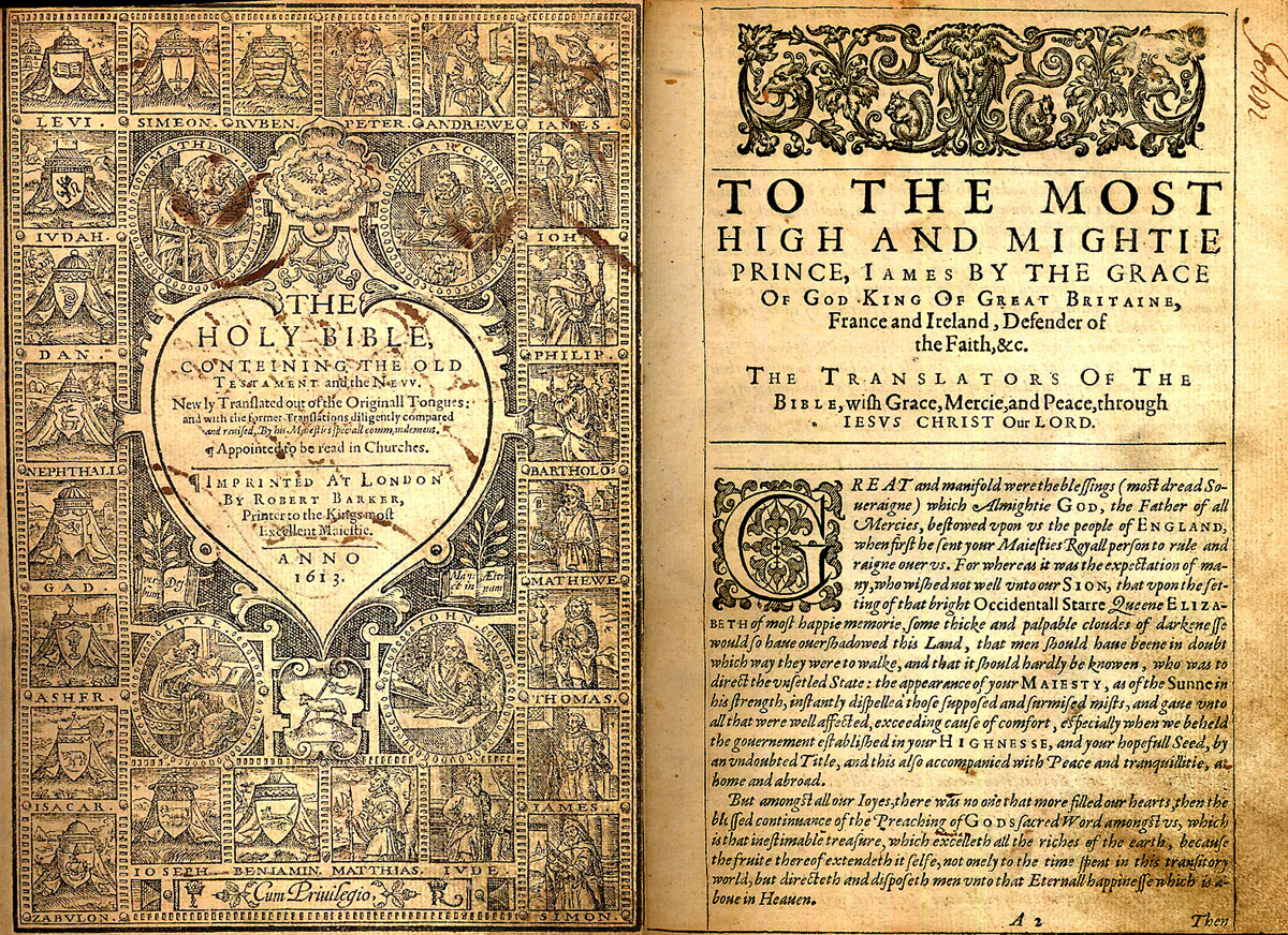 Titlepage and dedication from a 1613 King James Bible, printed by Robert Barker.